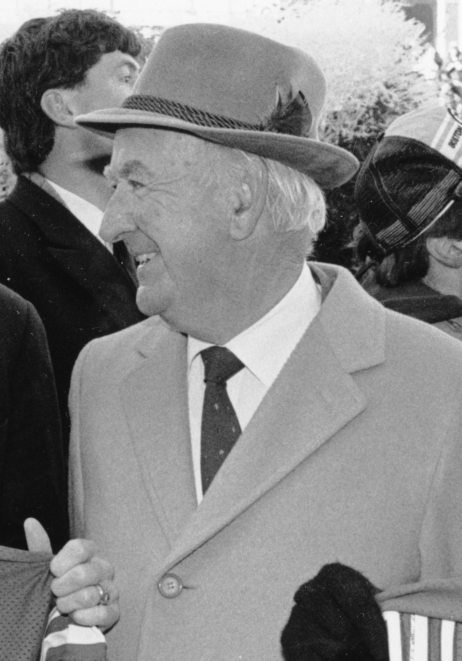 Title: Mayor Raymond L. Flynn, New England Patriots Owner Billy Sullivan, Governor Michael S. Dukakis Creator: Mayor's Office - City Photographer Date: 1985 Source: Mayor Raymond L. Flynn records, Collection #0246.001 File name: RF_0528 Rights: Copyright City of Boston Citation: Mayor Raymond L. Flynn records, Collection #0246.001, City of Boston Archives, Boston